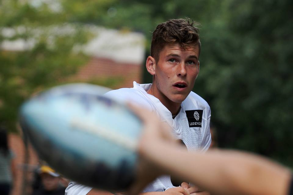 Pittsburgh Steelers punter Brad Wing (9) signs autographs after training camp at St. Vincent College in 2014 in Latrobe, Pa.